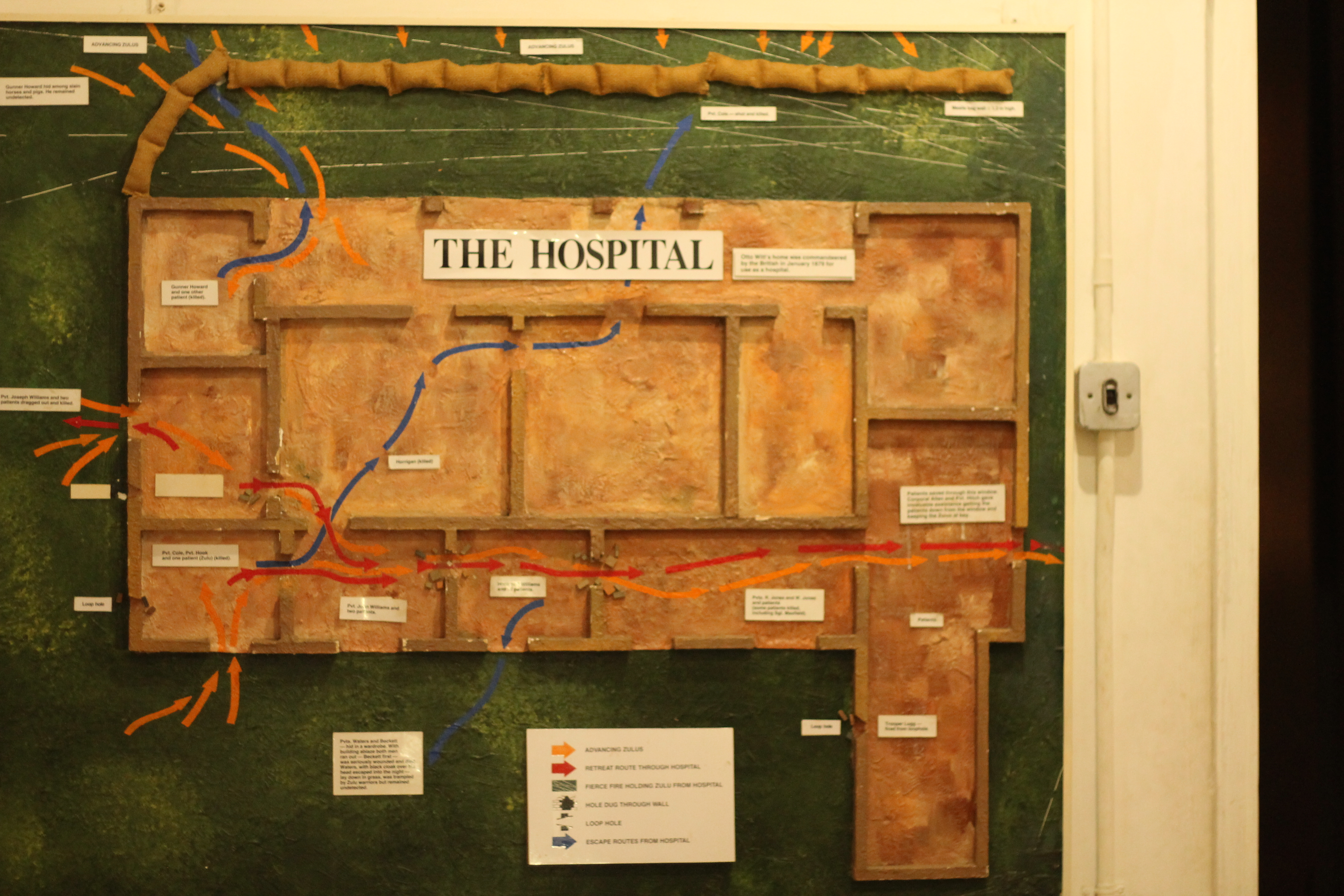 Here the Battle of Rorke's Drift was fought during the afternoon and night of 22 January 1879. A small British force of two officers and 110 men defended themselves bravely against the repeated attacks of some 4,000 Zulus This media shows a South African Protected Site with SAHRA file reference 9/2/406/0006.